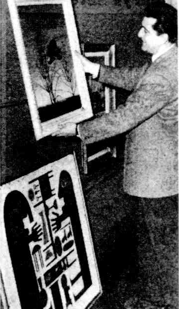 Claude Bonin-Pissarro hanging "The Bee" by Felix Labisse at the National Gallery yesterday in preparation for the exhibition of French art. On the floor is "Oppression of the Object", by Victor Brauner.